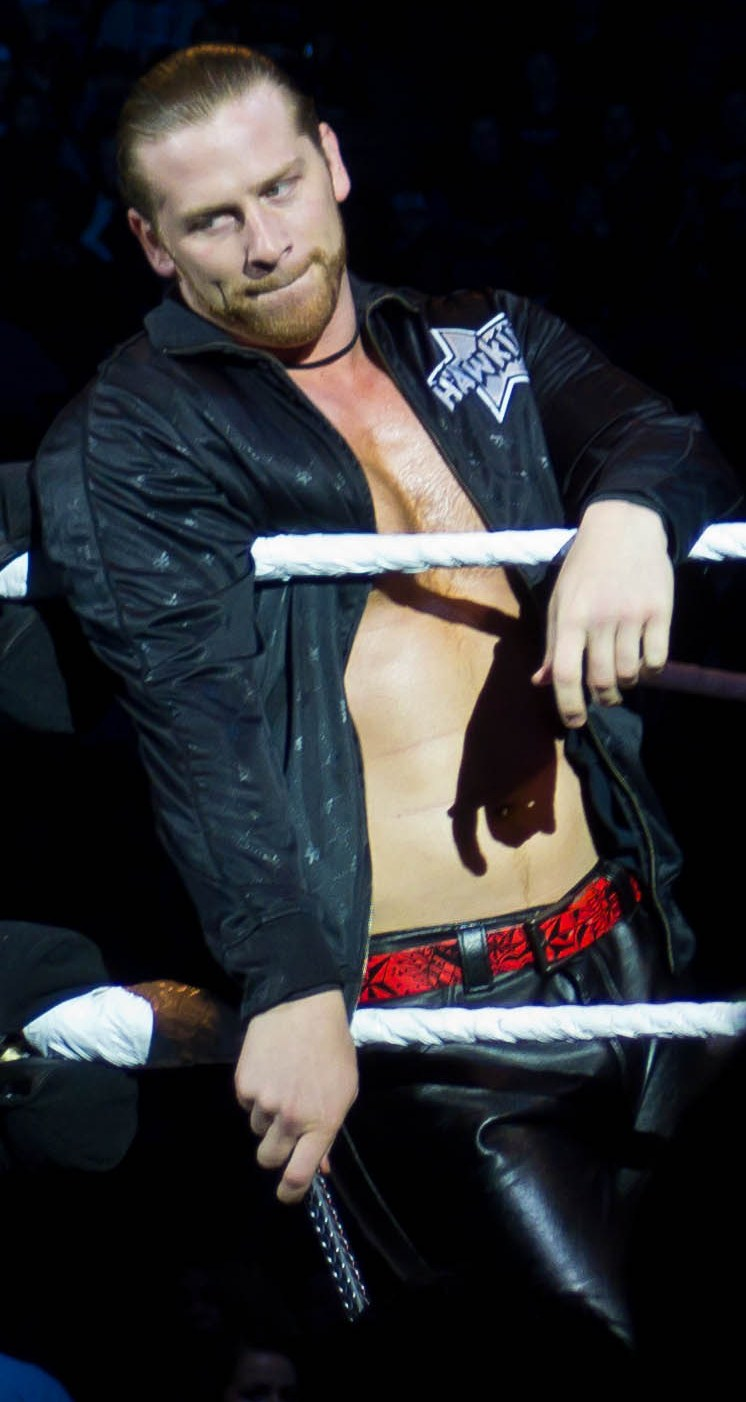 Curt Hawkins at a WWE Raw house show in London on November 11, 2011